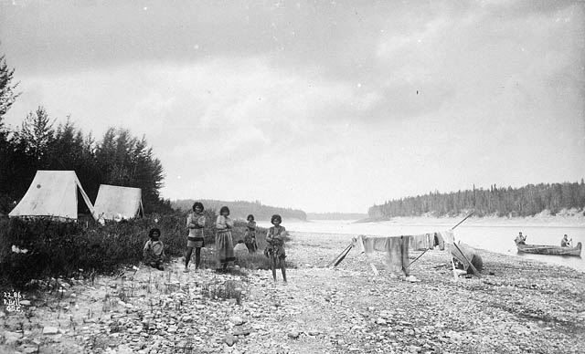 First Nations encampment beside the Albany River in the Northwest Territories, en:1886. Photo by Robert Bell, Geological Survey of Canada. Online version from Library and Archives Canada, Accession 1963-058 [1]